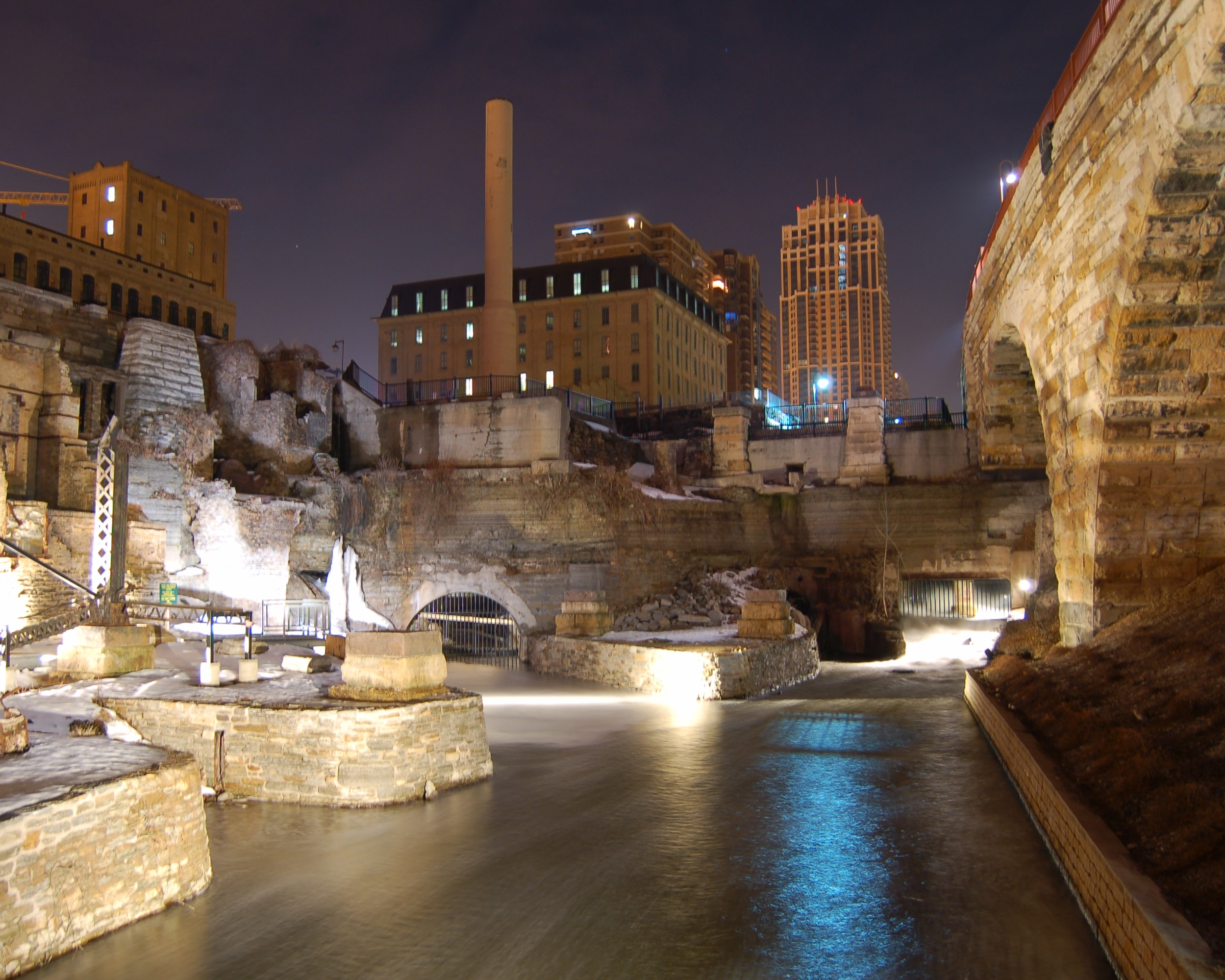 Mill Ruins Park at night